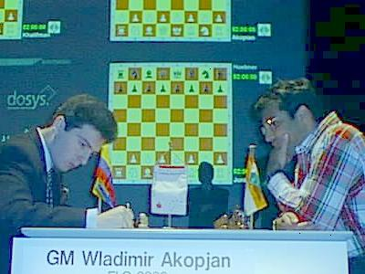 Vladimir Akopian - Viswanathan Anand, Dortmunder Schachtage 2000, Photographer Gerhard Hund.